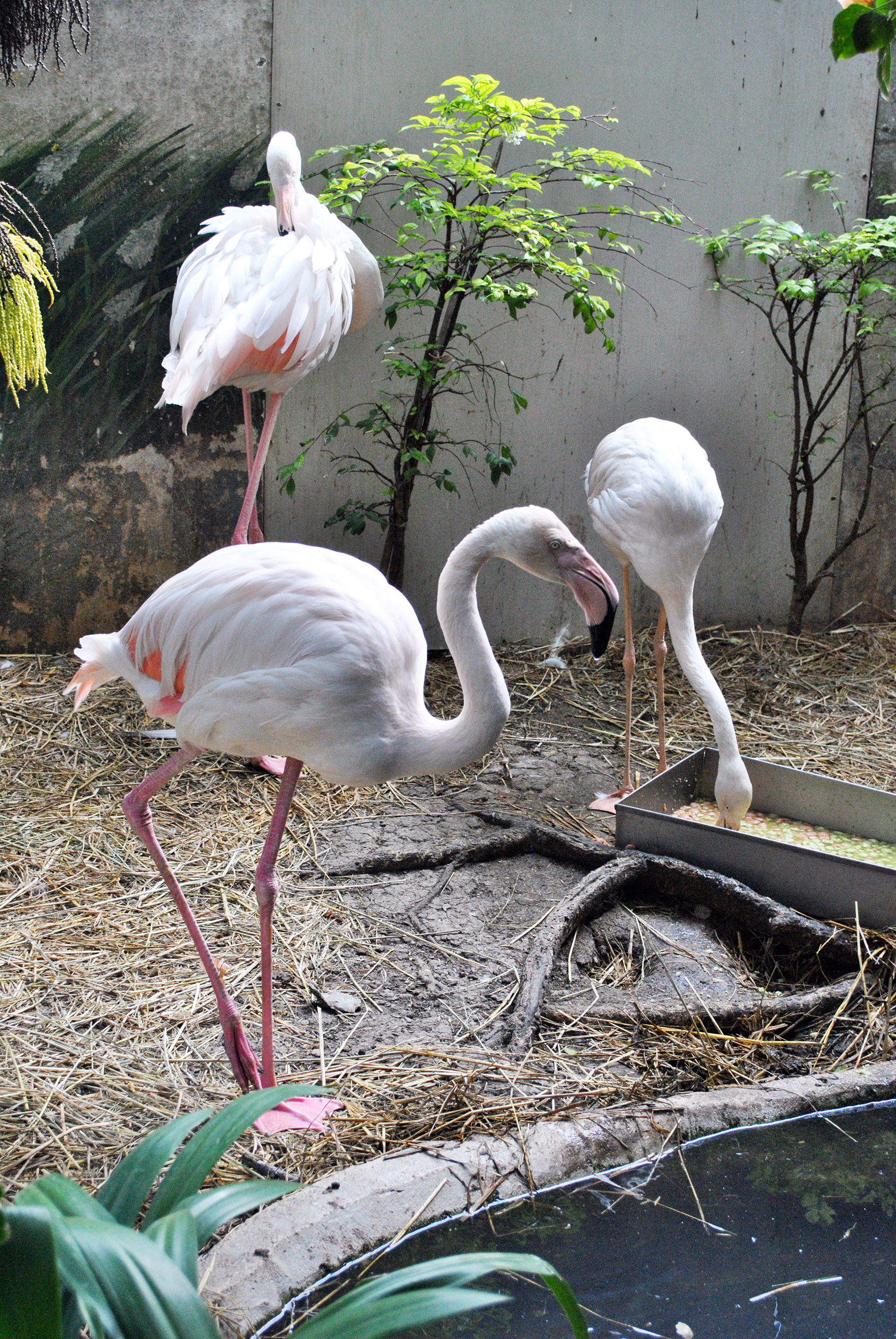 Flamingo in Pata Zoo